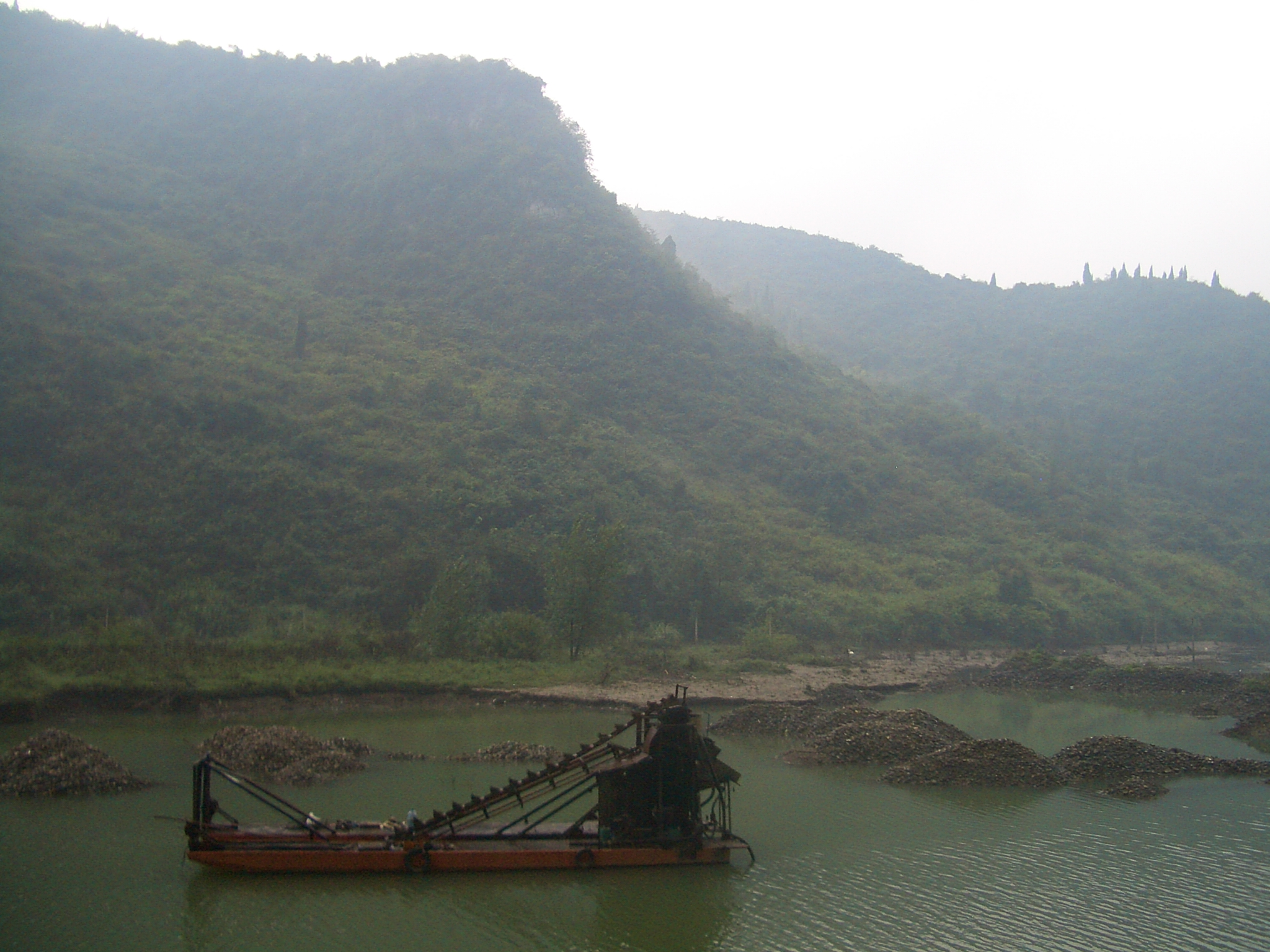 Boats used to ferry sand/gravel dredged from the bottom of a lake (the Hengshi River bay of the Fushui Reservoir) to a makeshift dock on the side of Highway G106. Picture taken in Tongshan County, between Tongyang Town and Jiugong Town (Hengshitan), probably somewhere a bit south of Fuyou Village (富有村).